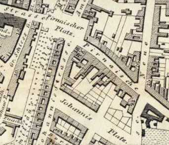 detail of a city map of Dresden, a section of the formerly suburb Pirnaische Vorstadt, 1863